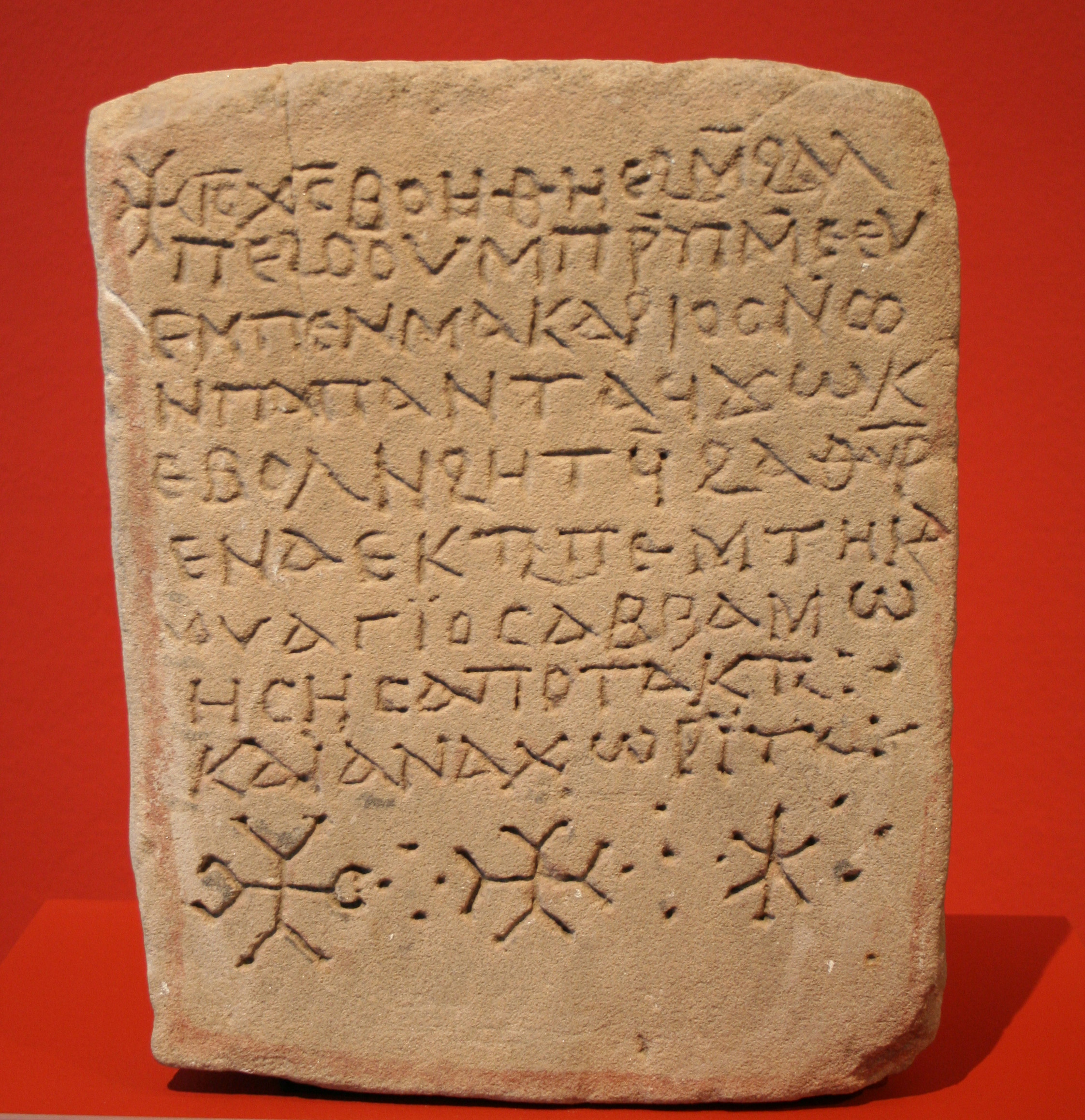 Roemer- und Pelizaeus-Museum, Hildesheim